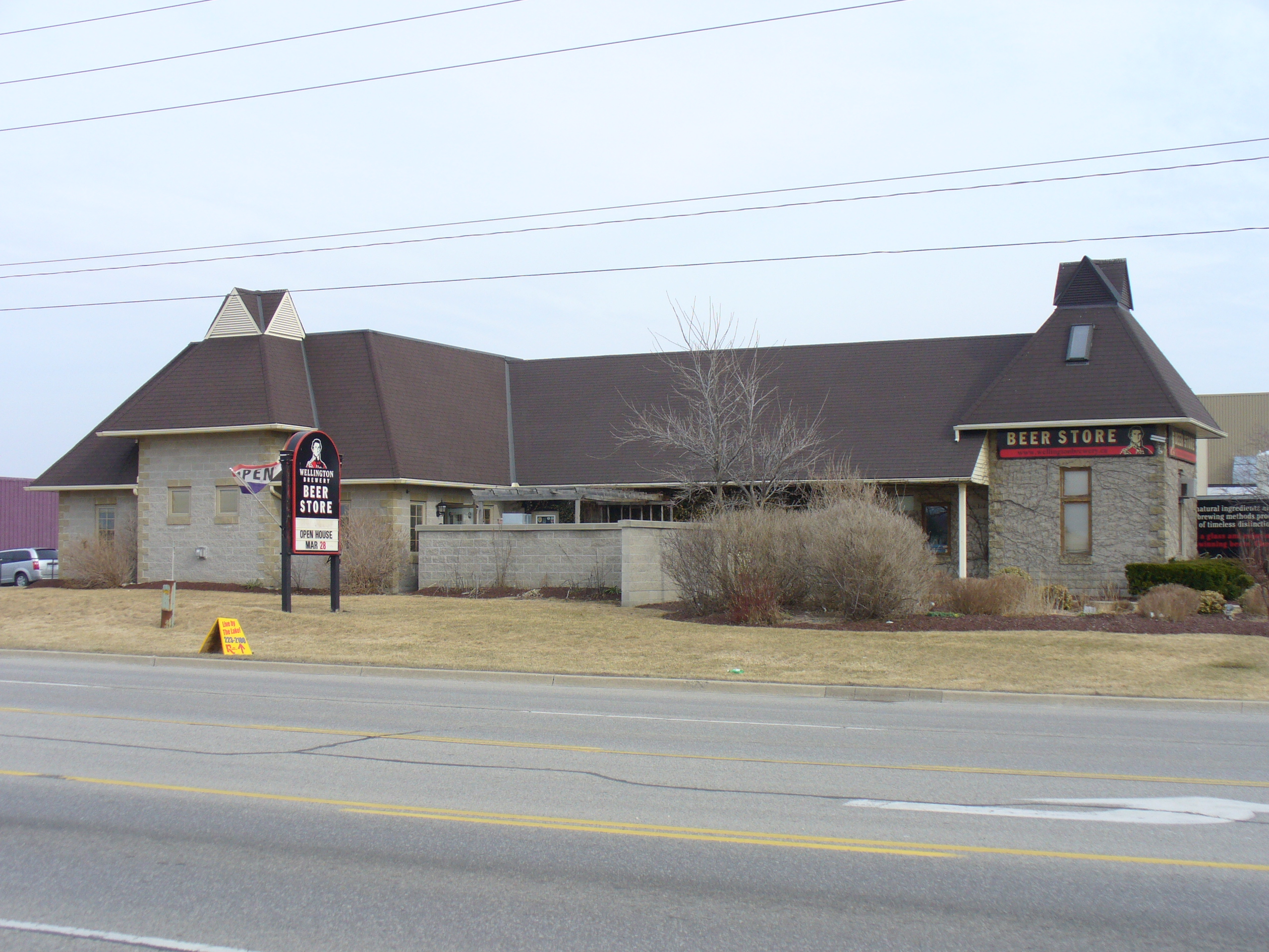 Shot of the front of Wellington Brewery in Guelph, ON from across Woodlawn Rd.